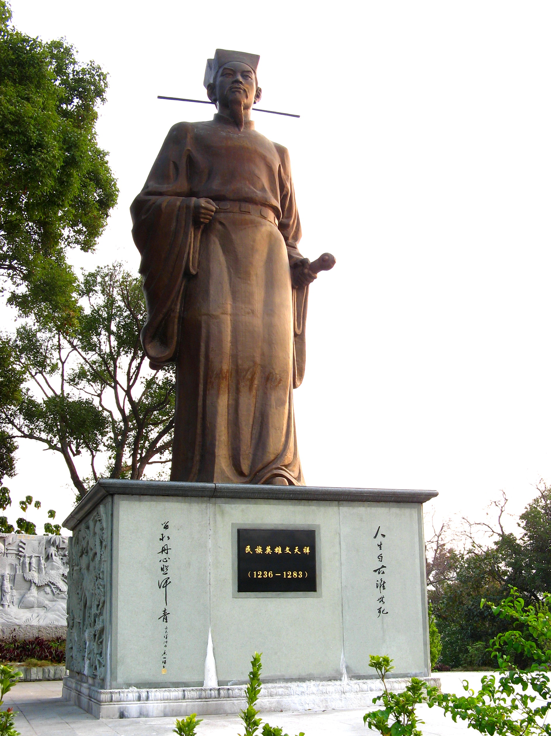 A 6 meters tall bronze statue of Man Tin Cheung in the Man Tin Cheung Park, San Tin, Yuen Long.